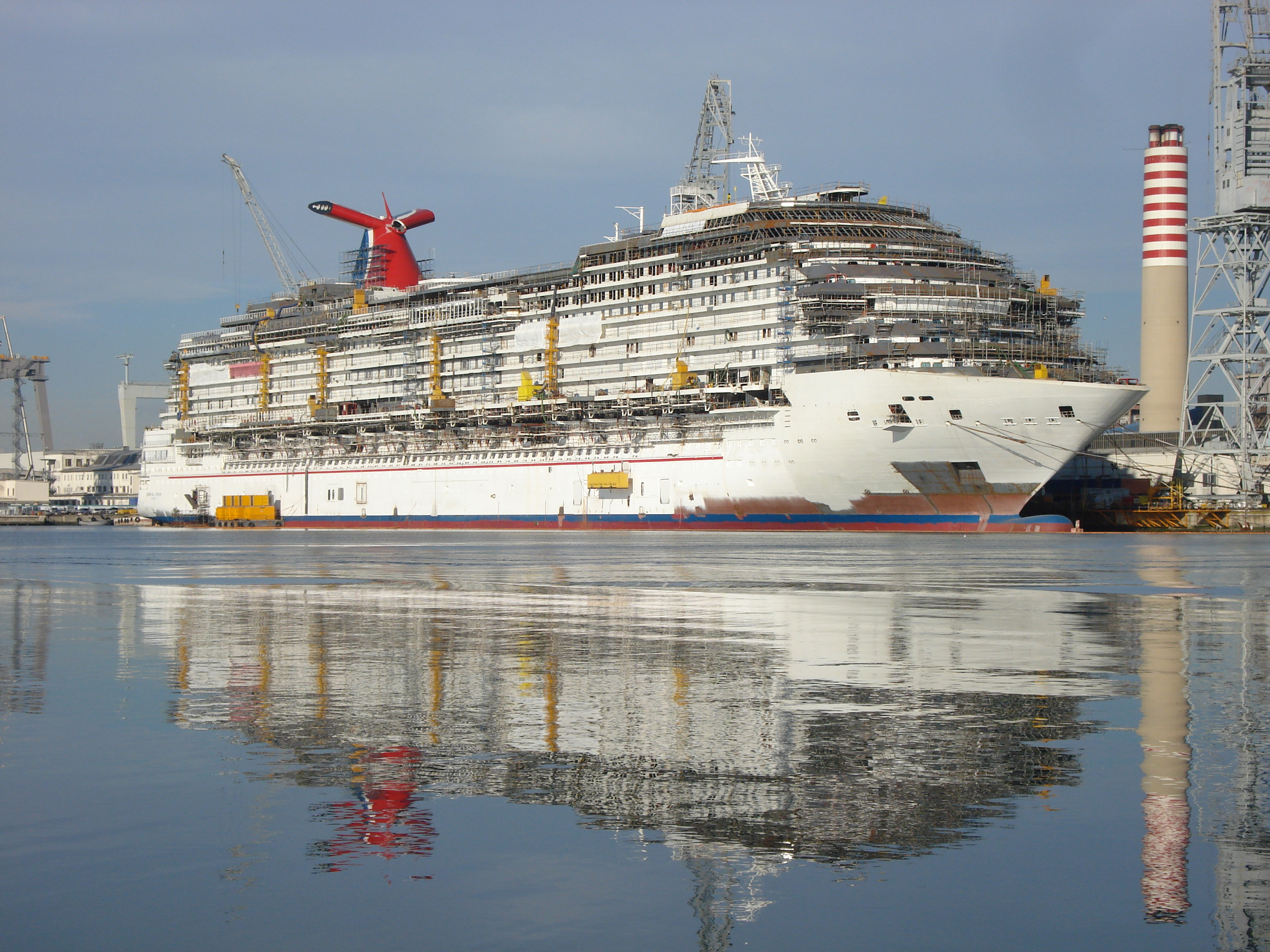 Carnival Dream under construction in Fincantieri yard. Information about Carnival Dream may be found at IMO 9378474.A ship can change name and flag state through time, but the IMO number remains the same through the hull's entire lifetime. As a result, it can be useful to identify a ship by using the IMO number.